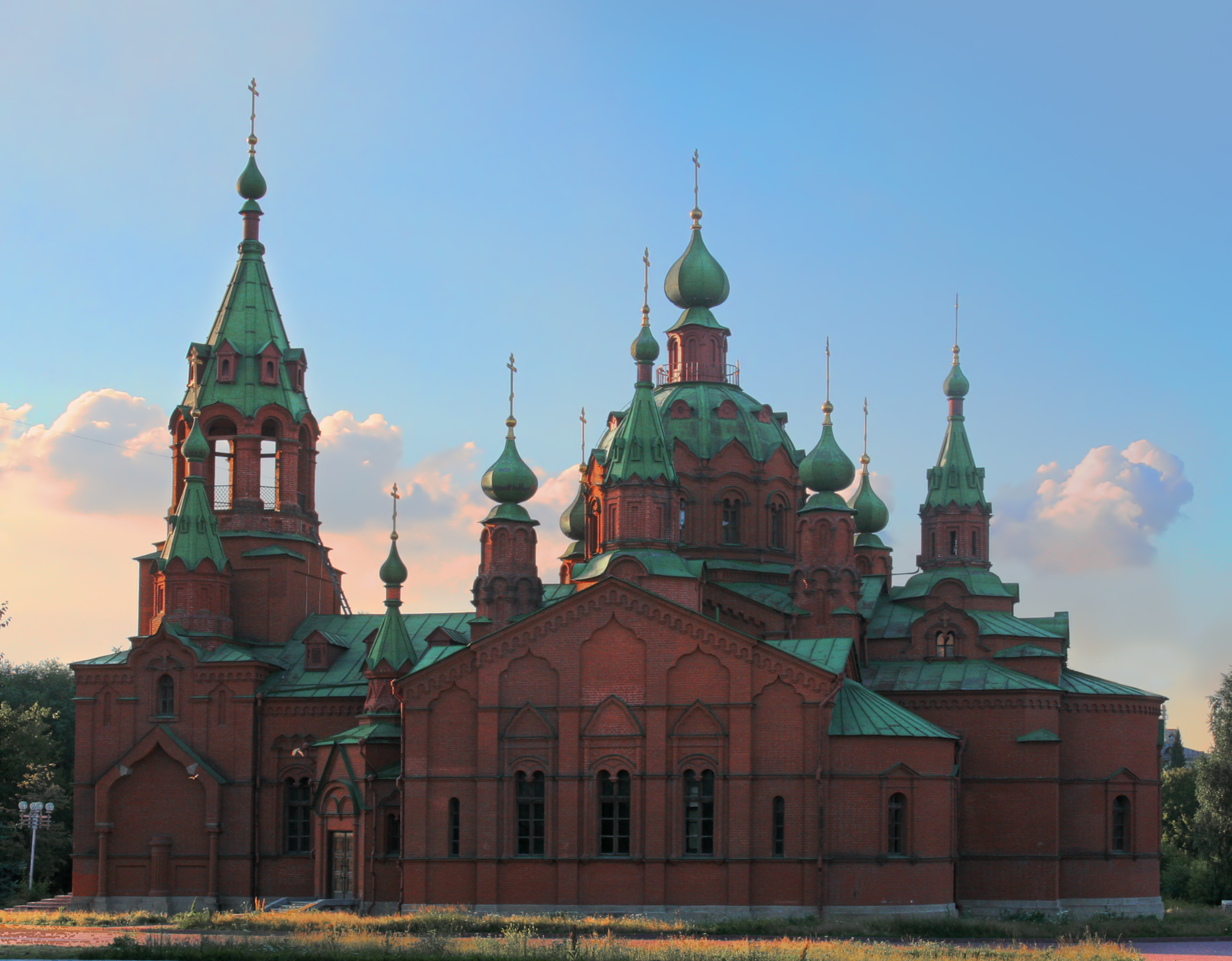 The Chelyabinsk Organ Hall (Alexander Nevsky Church), view from the south